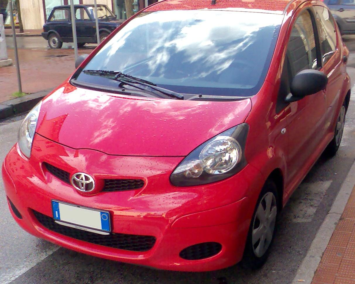 2009 Toyota Aygo